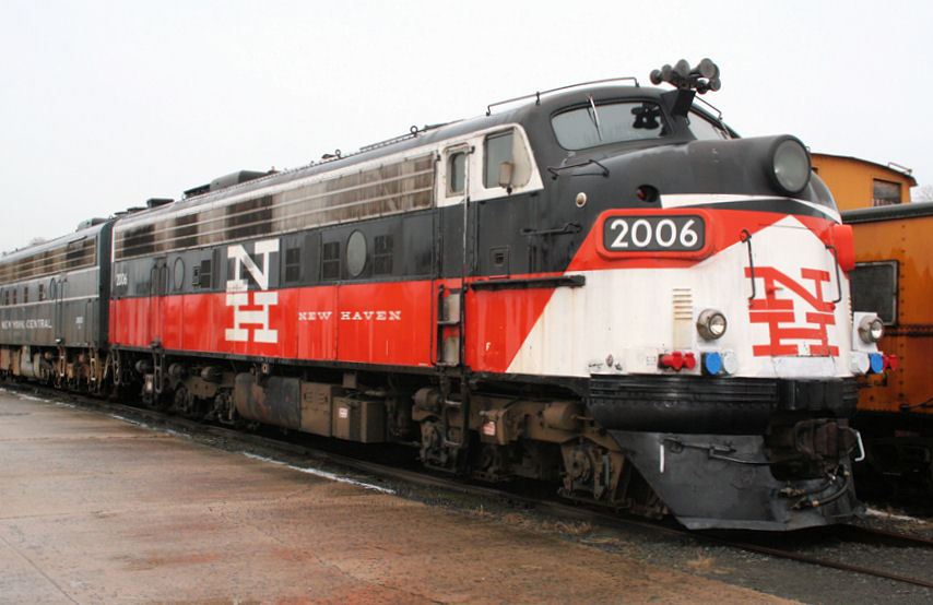 Ex-New Haven EMD FL-9 diesel electric locomotive # 2006 at Danbury Railway Museum, Danbury, Connecticut, USA.